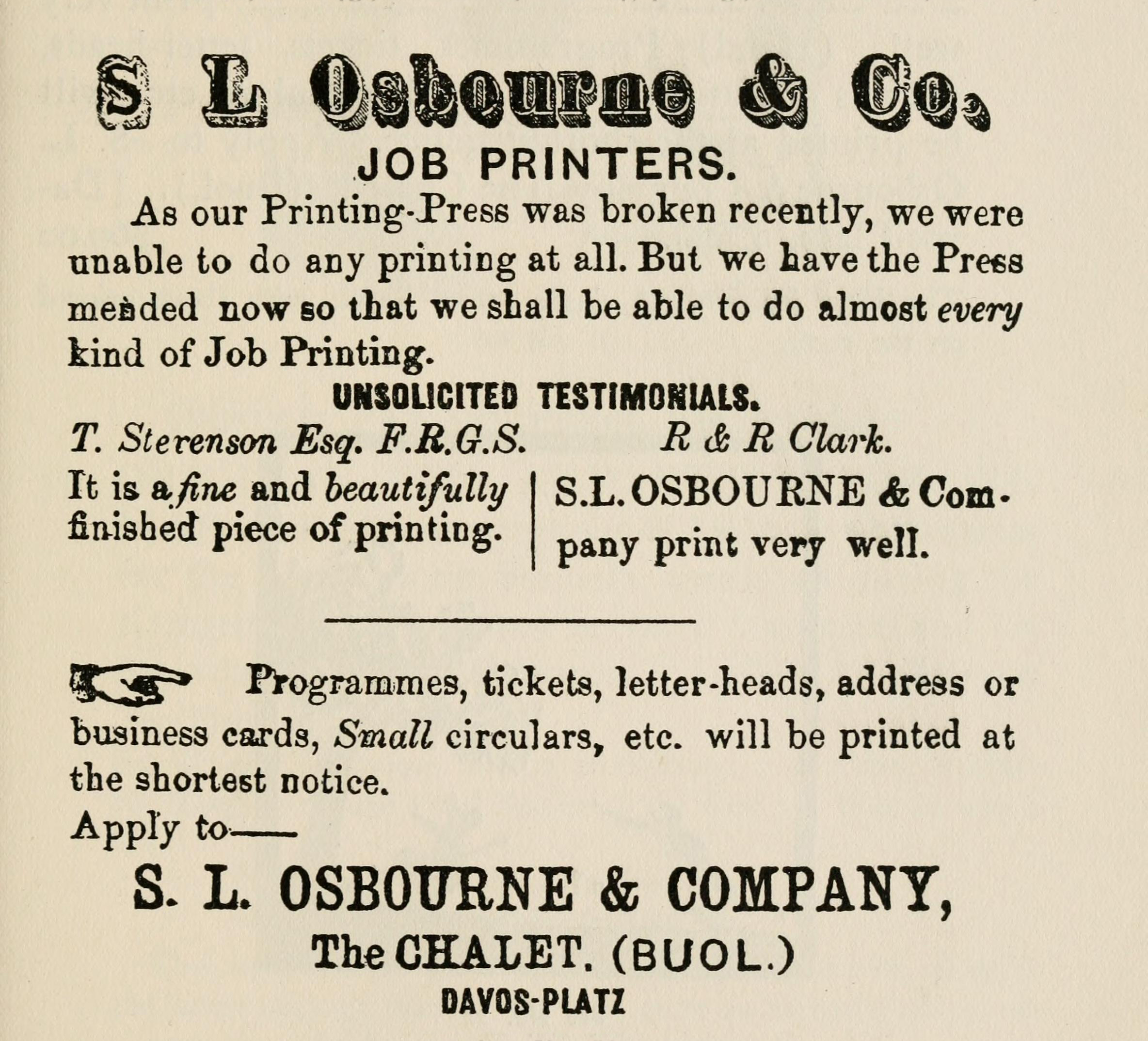 Advertisement for Sam Lloyd Osbourne printing operation in Davos